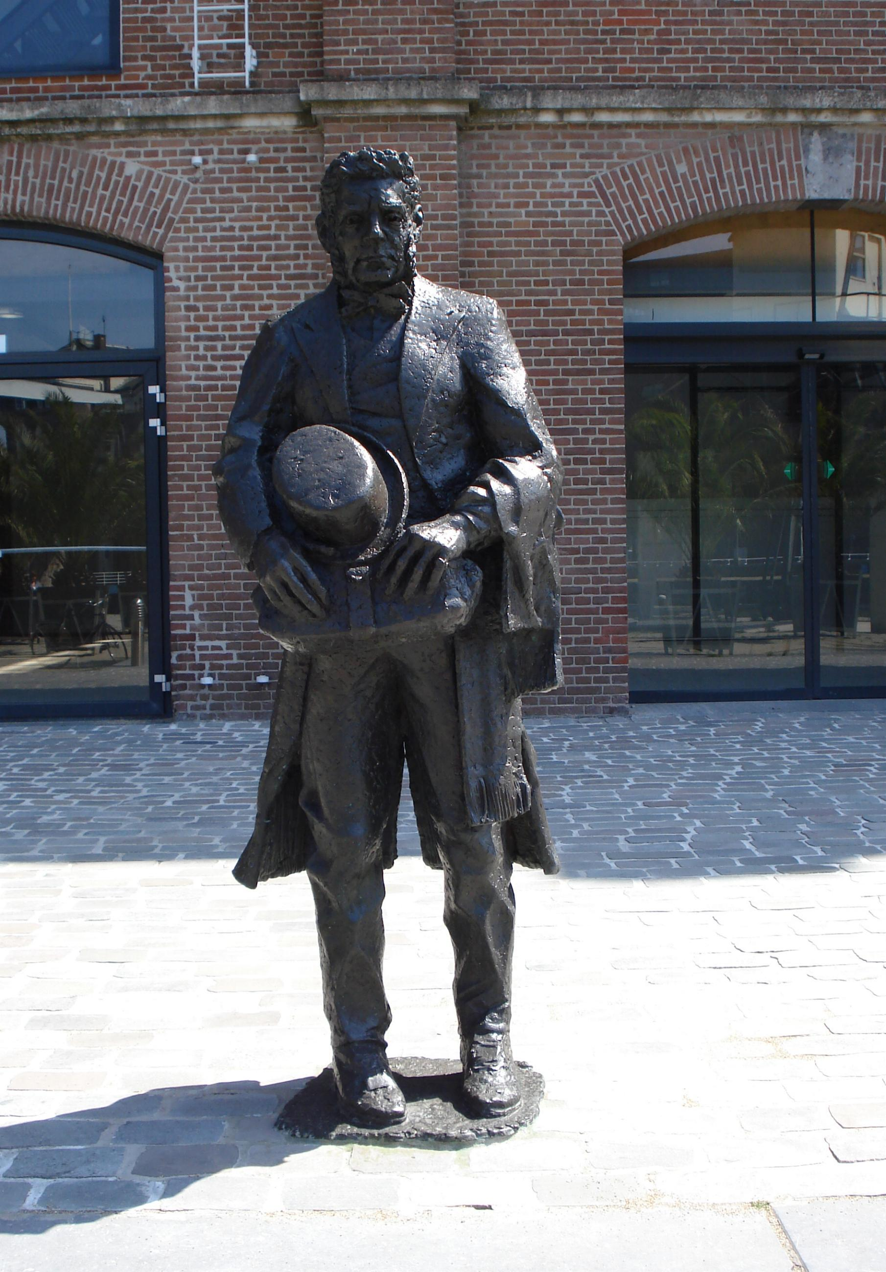 Rotterdam, Handelsplein. Standbeeld Lodewijk Pincoffs van Willem Verbon. Rotterdam/The Netherlands